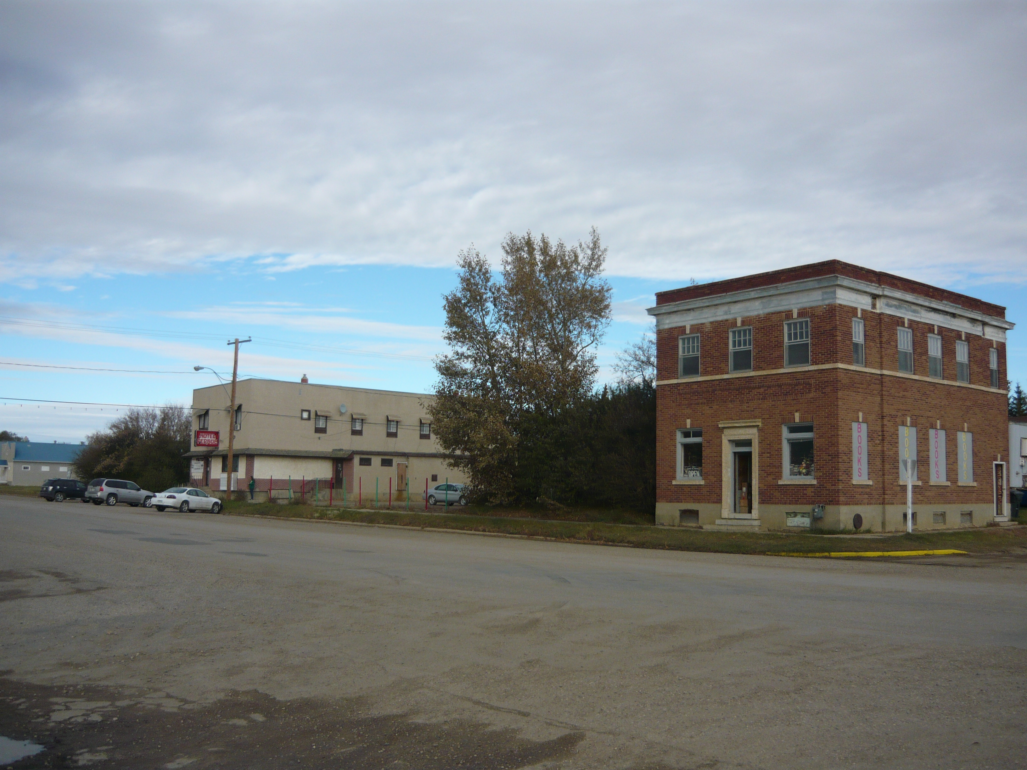 The main business street of Perdue, Saskatchewan, Canada. The gray two-story building on the left is the Hotel Perdue. The red brick two-story building on the right is a bookstore, Crawford's Used Books (Ralph Crawford), located in a former bank. Photo taken from the intersection of 7th Street and Avenue J, looking northward.